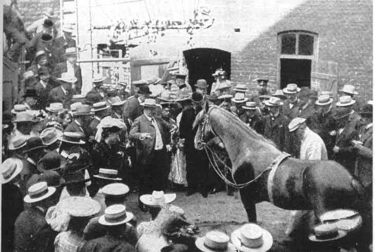 Schillings is presenting Clever Hans to the audience